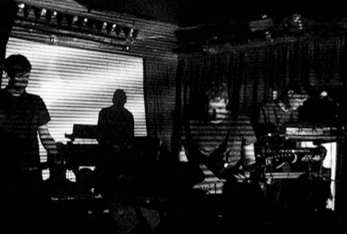 This is a screen grab image from video taken at The Soft Moon show on Feb 6th 2011.